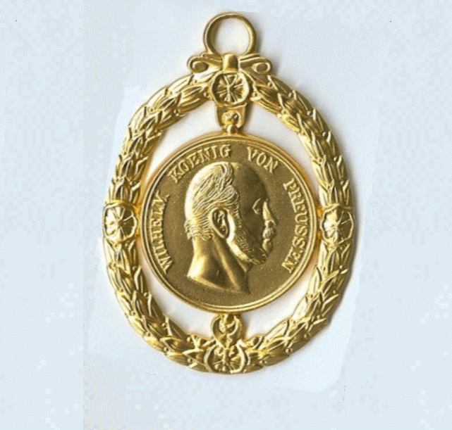 MEDAL